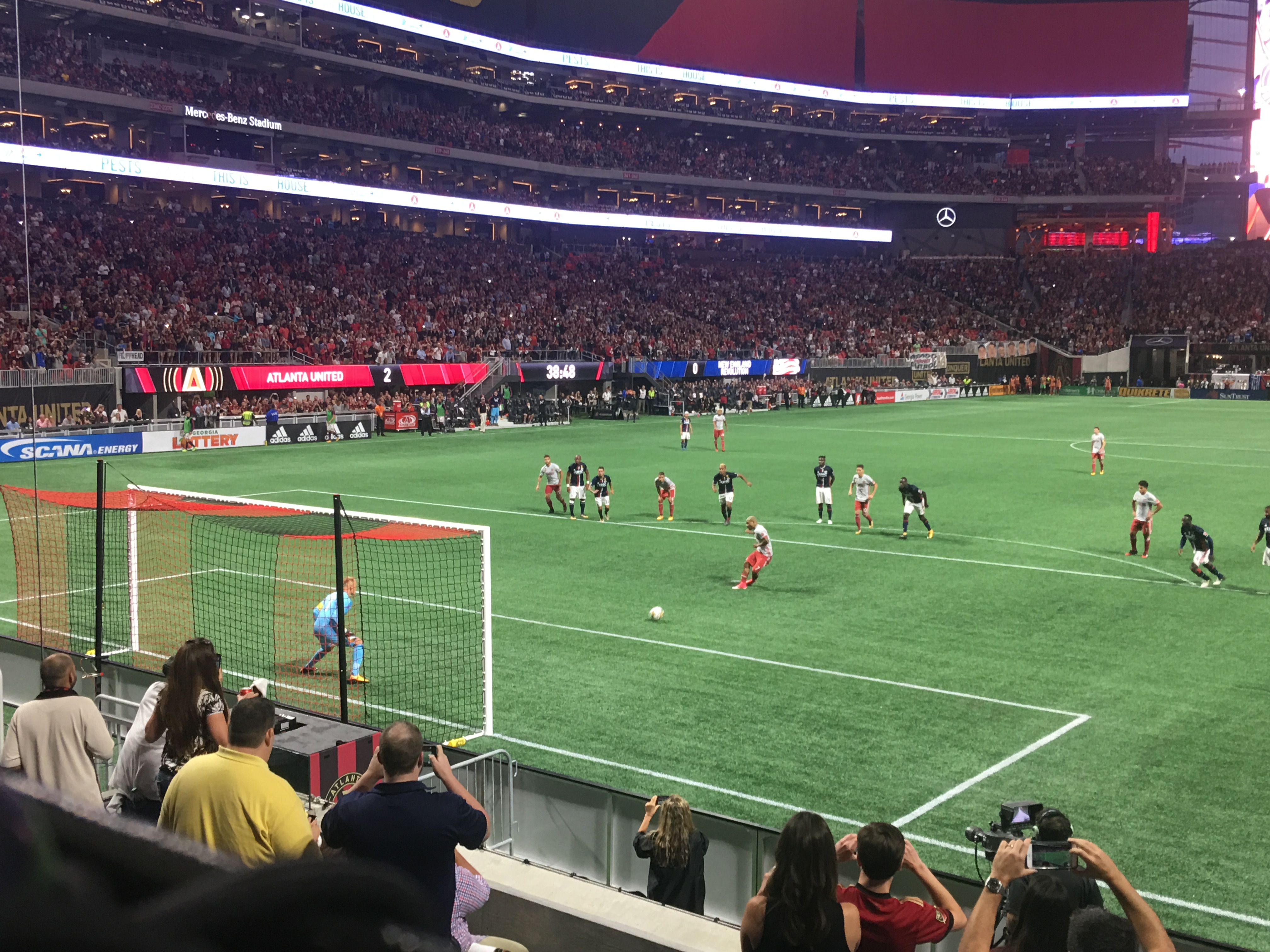 2017-09-13 - Atlanta United vs New England Revolution - Martinez scoring